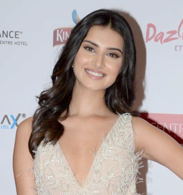 Tara Sutaria graces Miss Diva 2018